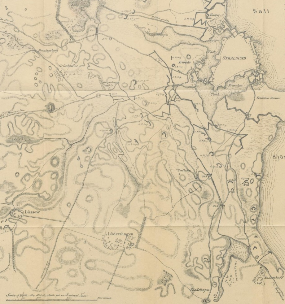 Map of Stralsund and nearabouts in the 19th century.